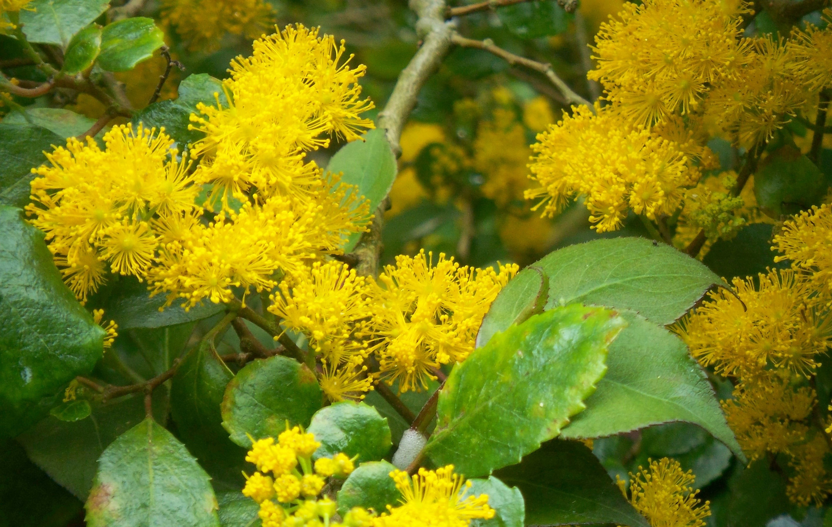 Azara serrata is a large evergreen shrub or small tree, best grown in a sheltered position, or against a sunny wall. This particular specimen in growing happily in my garden in West Sussex, and was not even damaged by the harsh winter of 2008/09. The distinctive, tangerine yellow flowers resemble those of Acacia, and are freely produced in May and June. In a hot summer, these may be followed by small, white berries. This species is hardier than most. It is native to Chile.